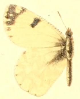 Plate from The Macrolepidoptera of the World. Vol. 5: Euchloe hyantis